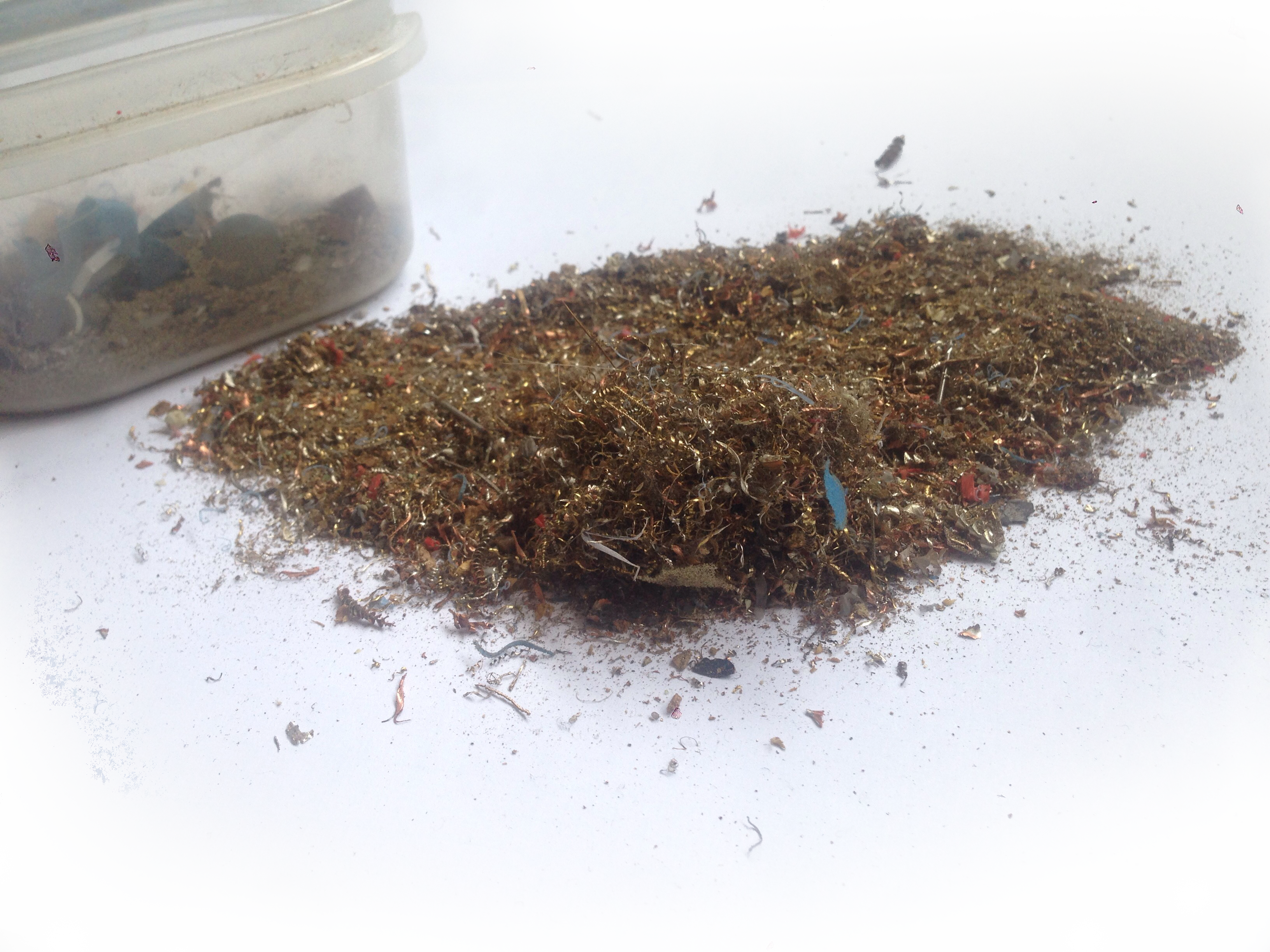 'Lavuur', precious metal powder waste from a workplace. nl